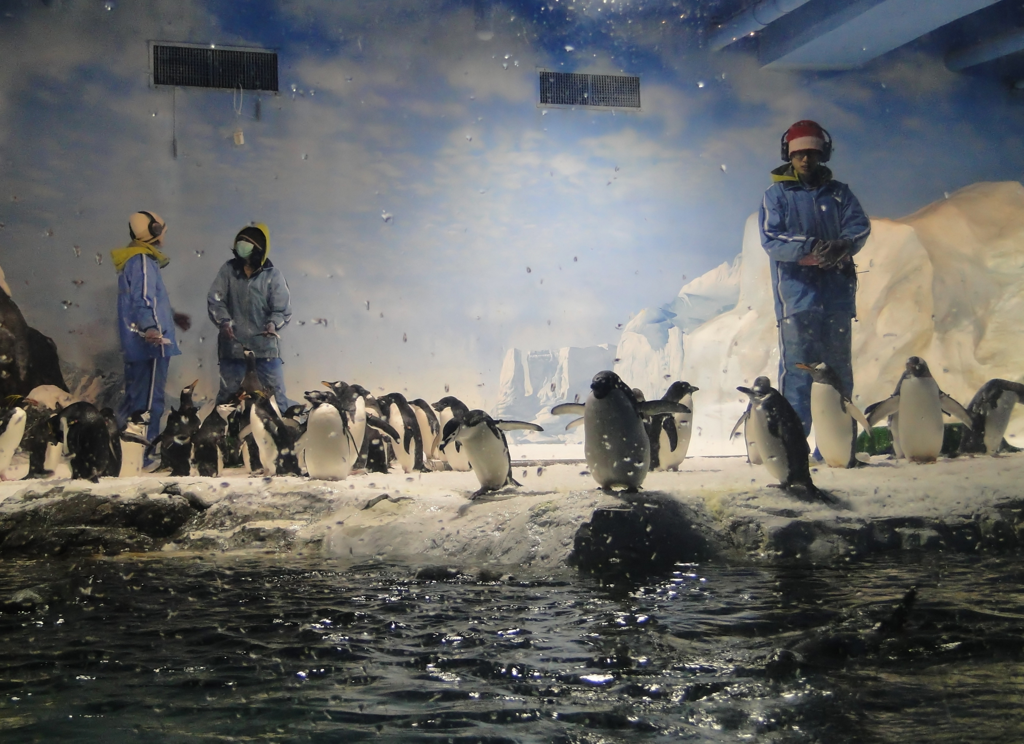 Penguins in National Museum of Marine Biology and Aquarium.中文（台灣）: 國立海洋生物博物館的企鵝。